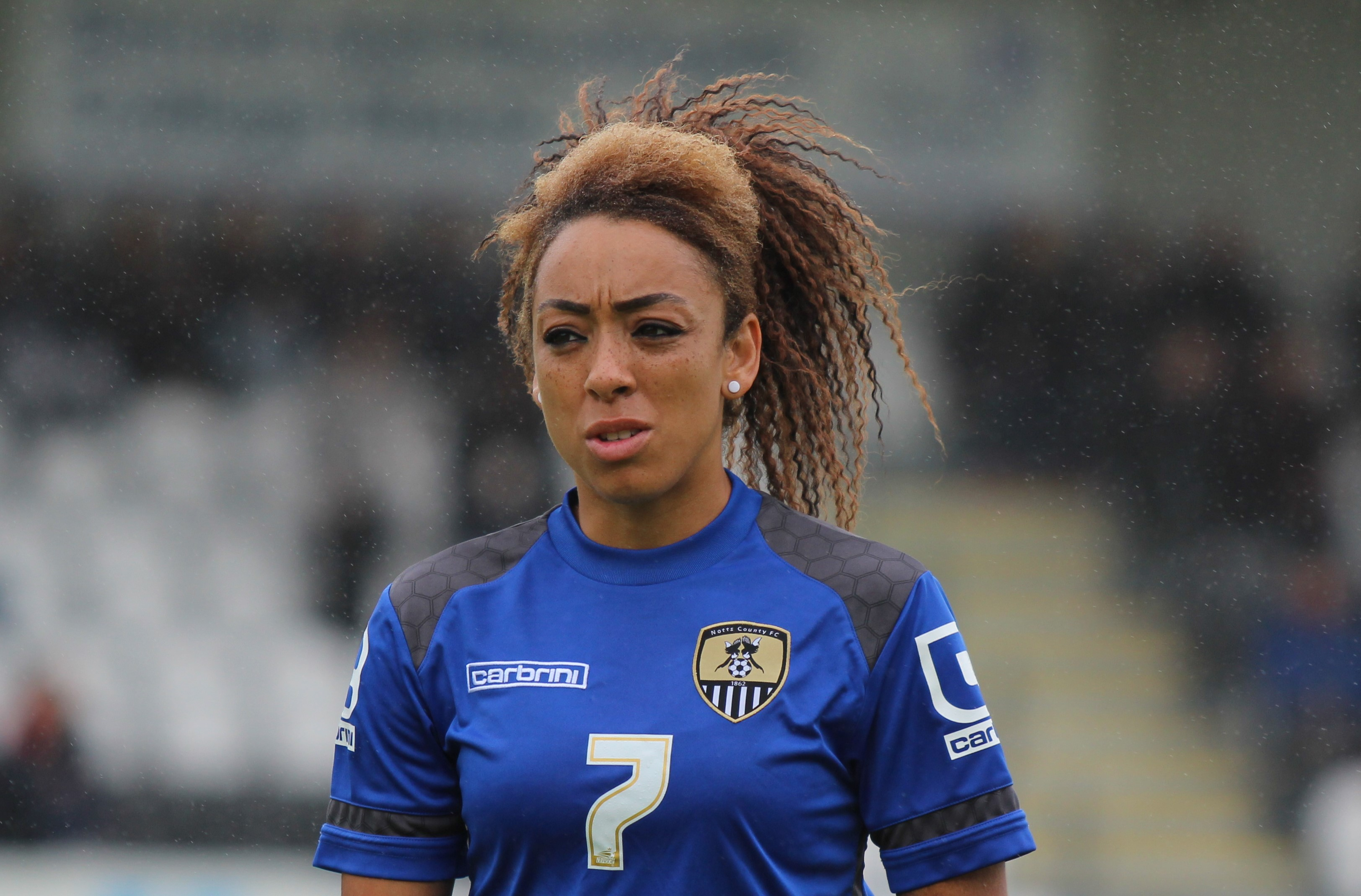 Jess Clarke of Notts County Ladies during the warm up before the game against Arsenal.